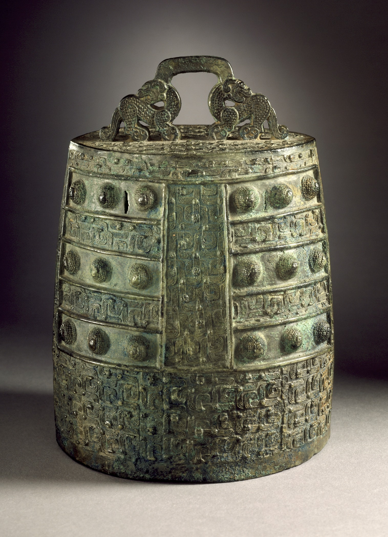 China, probably Shanxi Province, ancient state of Jin, Mid. Eastern Zhou dyn., late Spring and Autumn per. or early Warring States per., about 500-450 B.C. Tools and Equipment; musical instruments Cast bronze Gift of Claire Behar (M.86.325) Chinese Art